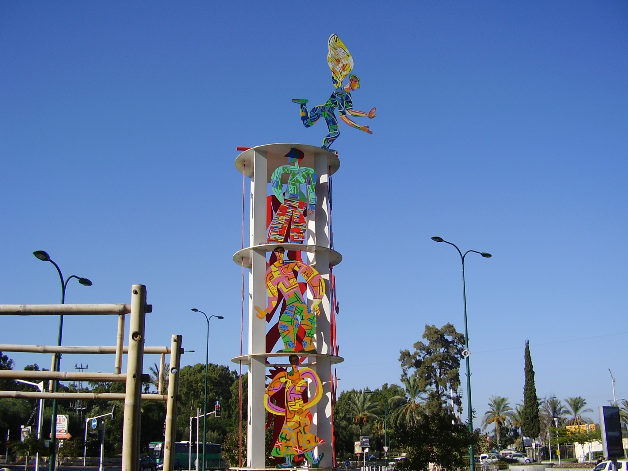 "Sky is the limit" by David Gerstein(2008) השמיים הם הגבול" מאת דוד גרשטיין(2008) ברמת גן"